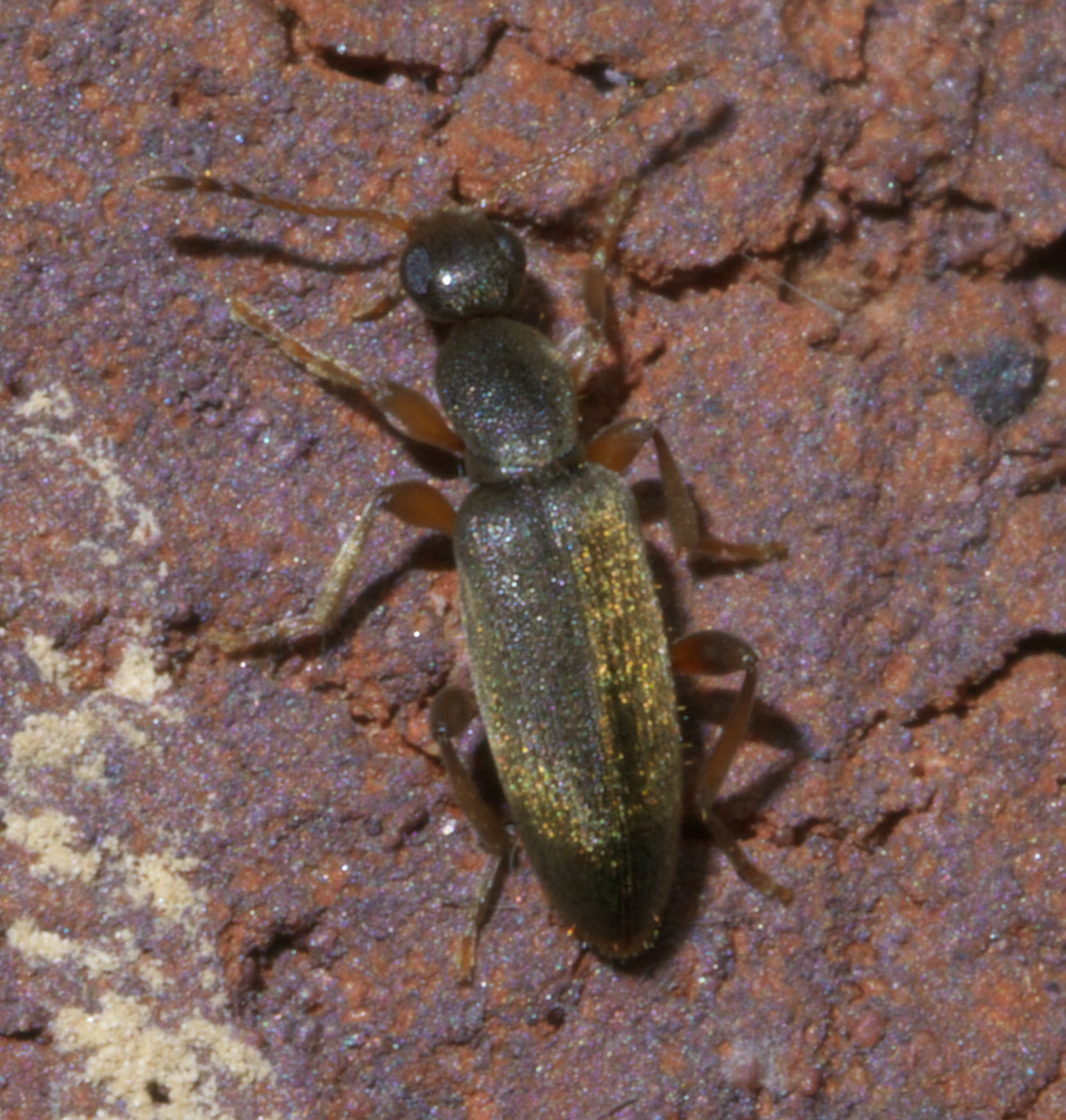 Macratria murina, Family: Antlike Flower Beetles, Size: 4.5 mm, ID Confidence: 98